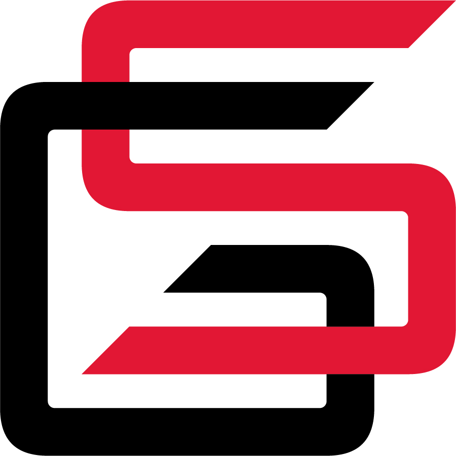 Goldberg Segalla logo.